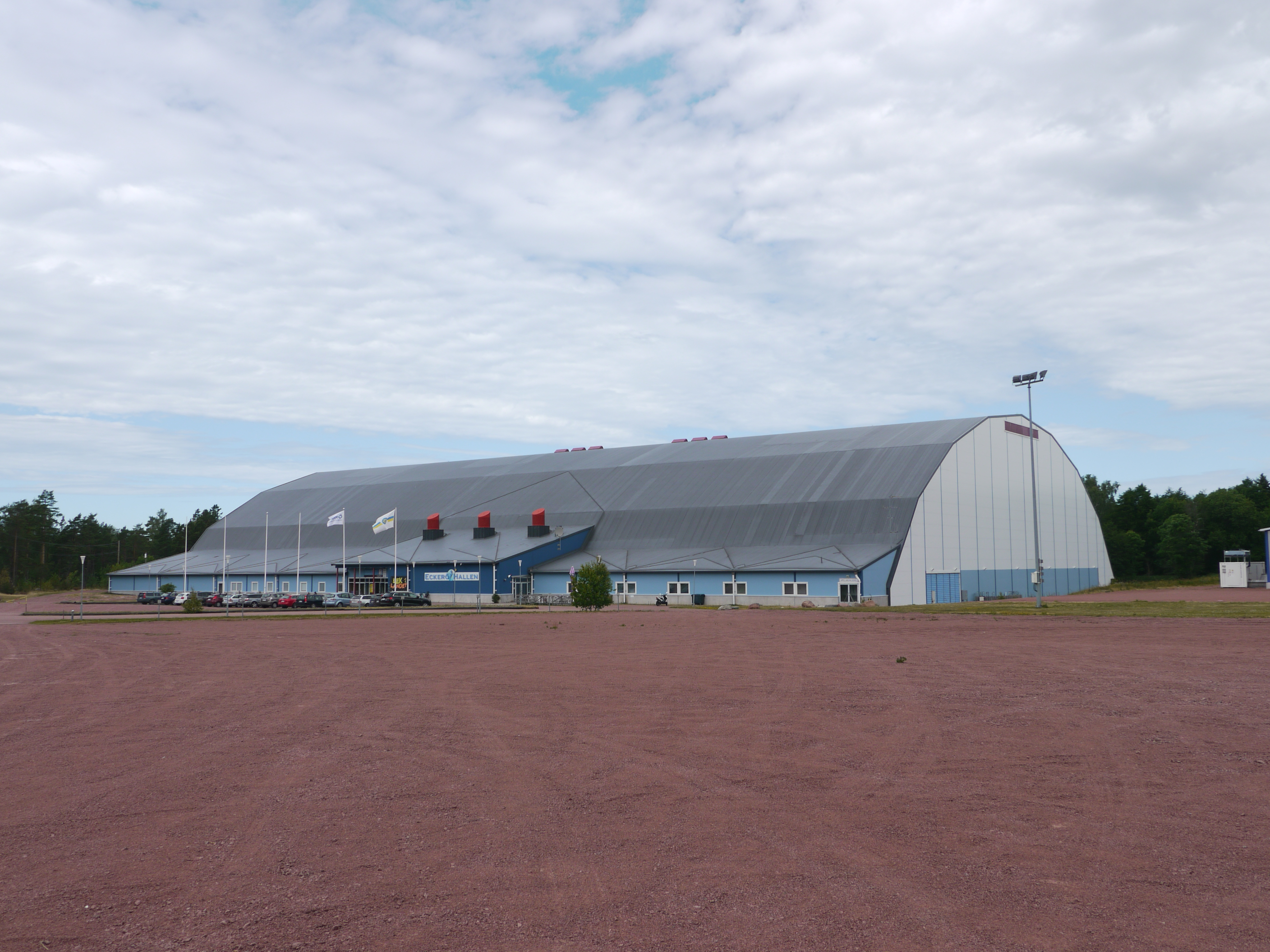 The Eckeröhall, a sports hall in the Ålandic community Eckerö.